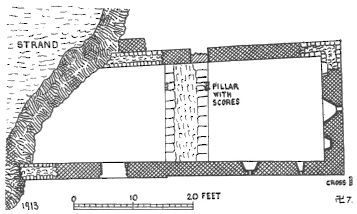 Ground plan of the Augustinian house of regular canons at the Mullet Peninsula in County Mayo, “Cross Abbey”. Drawn by Thomas Johnson Westropp in 1913, published in 1914.